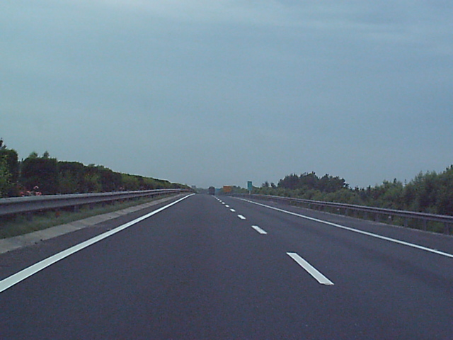 Baojin Expressway Hebei Section. Taken by Wikipedian DF08 in July 2004